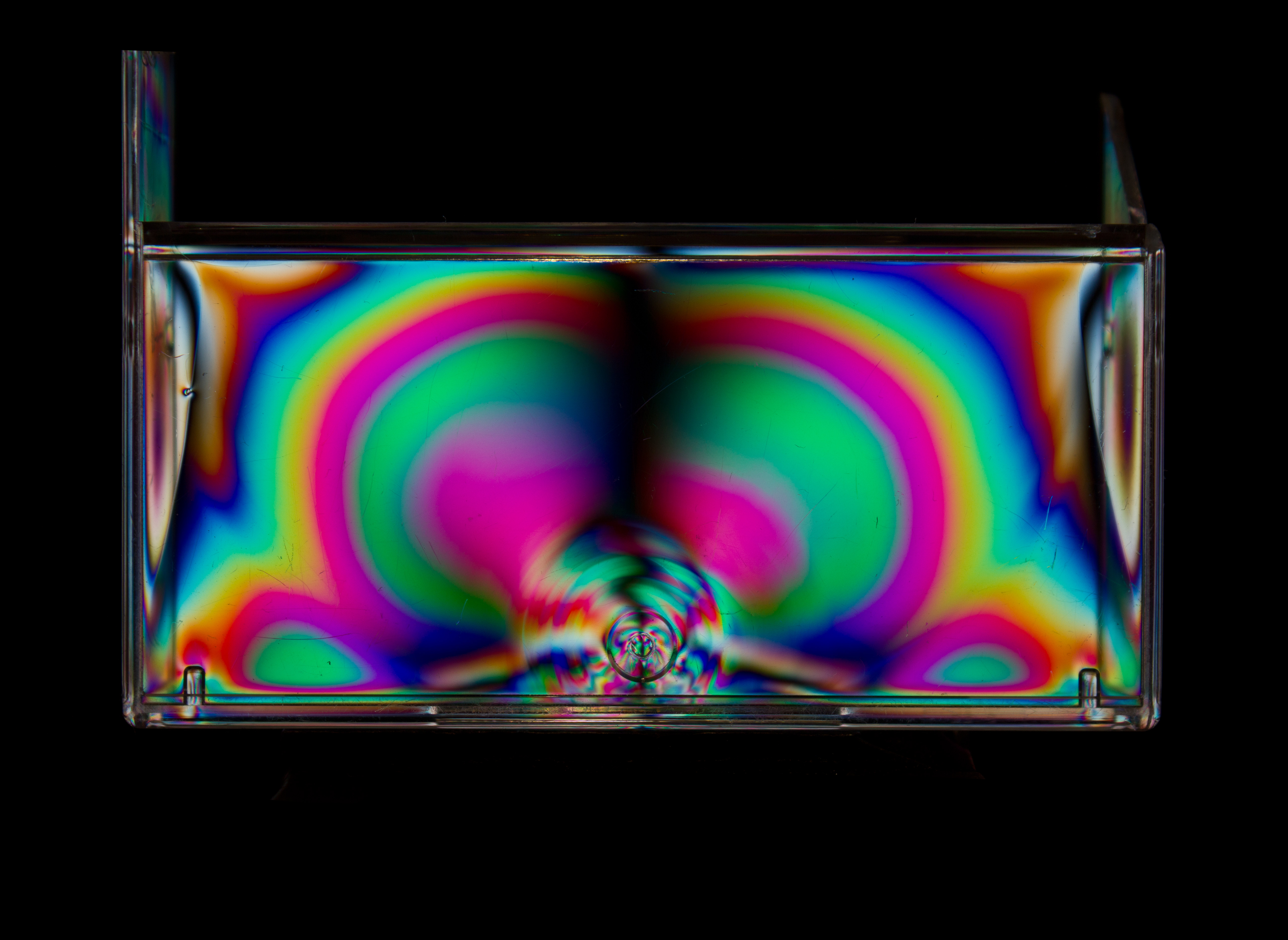 Internal stresses in the tested object. Taken in a double polarized light. Isochromes seen in the polaroscope.